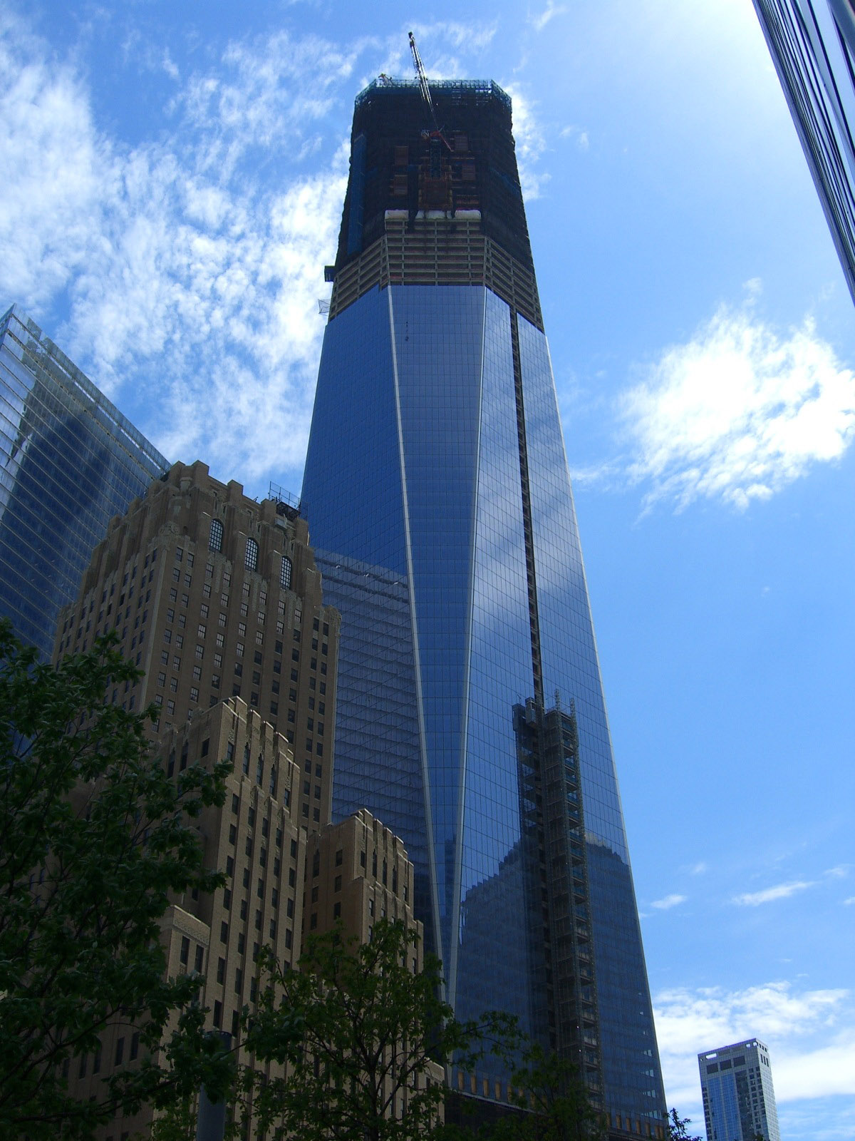 The under-construction One World Trade Center, or "Freedom Tower", as seen on April 28, 2012. Construction has reached the one hundredth floor at this point, leaving four floors left. This photo was created by Luigi Novi. It is not in the public domain, and use of this file outside of the licensing terms is a copyright violation.